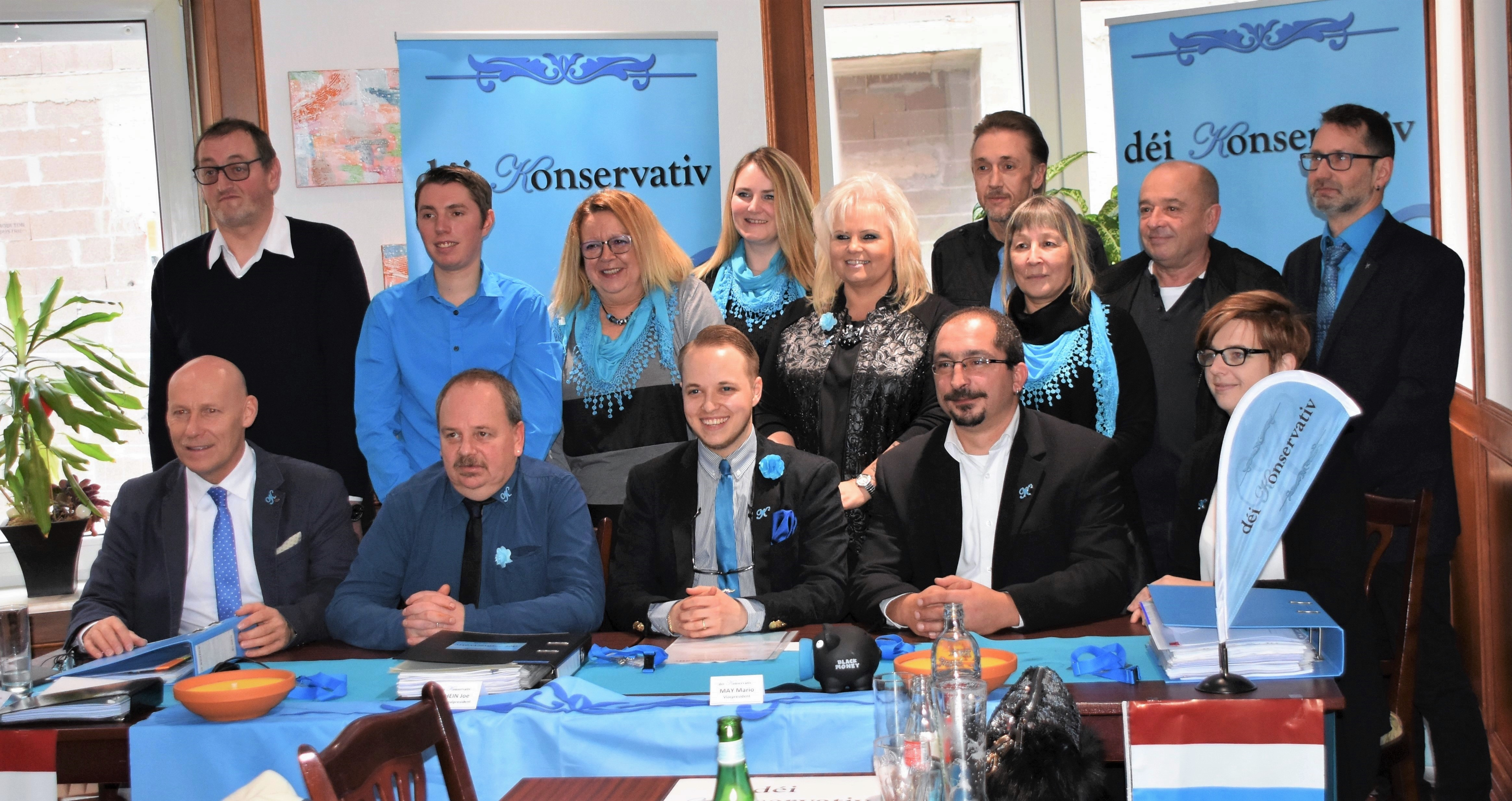 National committee The Conservatives (lux)